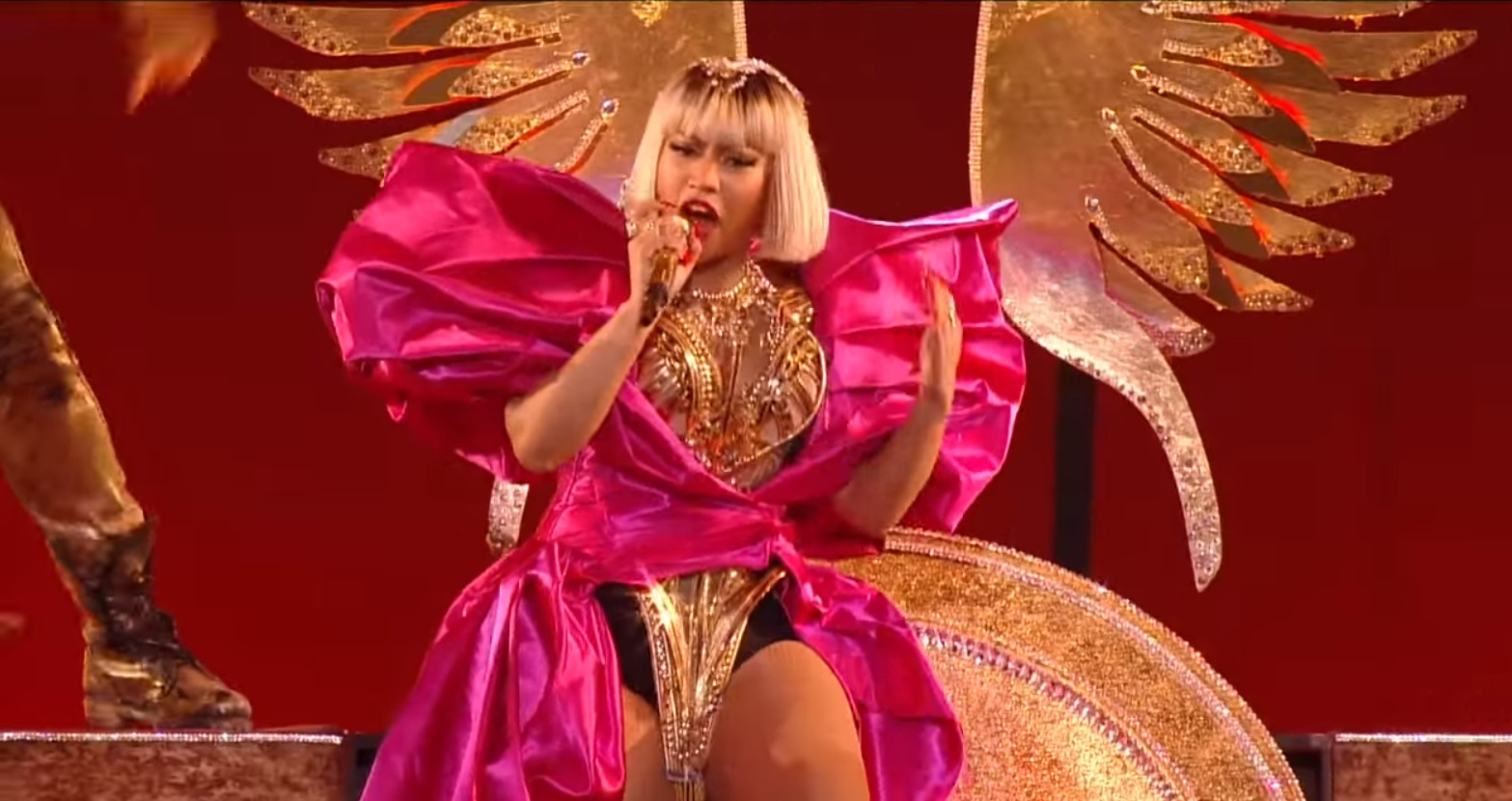 Nicki Minaj performs a medley of "Majesty," "Barbie Dreams," "Ganja Burn," and "FeFe" at the 2018 Video Music Awards in New York City.